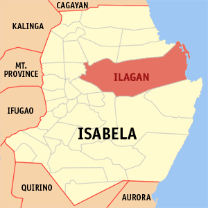 Map of Isabela showing the location of Ilagan